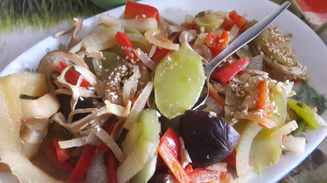 Cooked wosun.